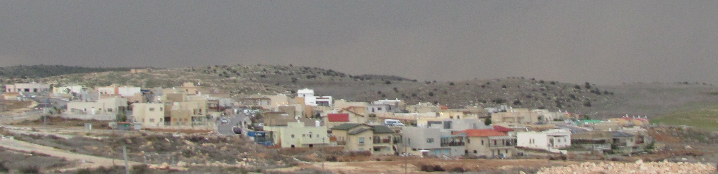 Neta Mirsham